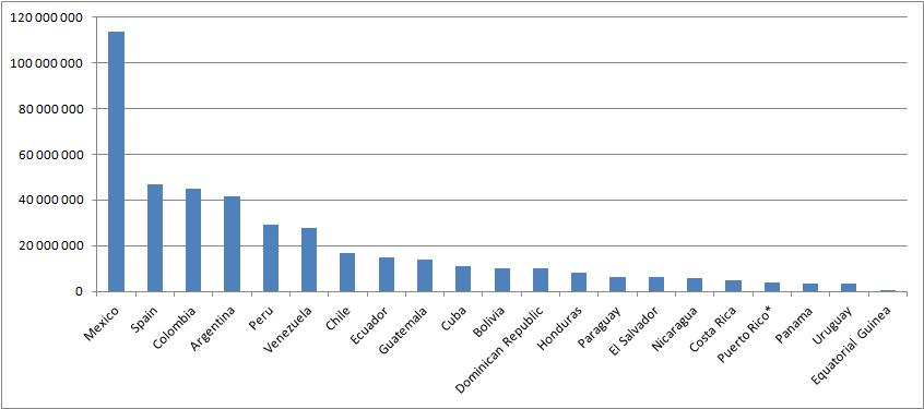 Population of the Spanish speaking countries (+ Puerto Rico) 2011